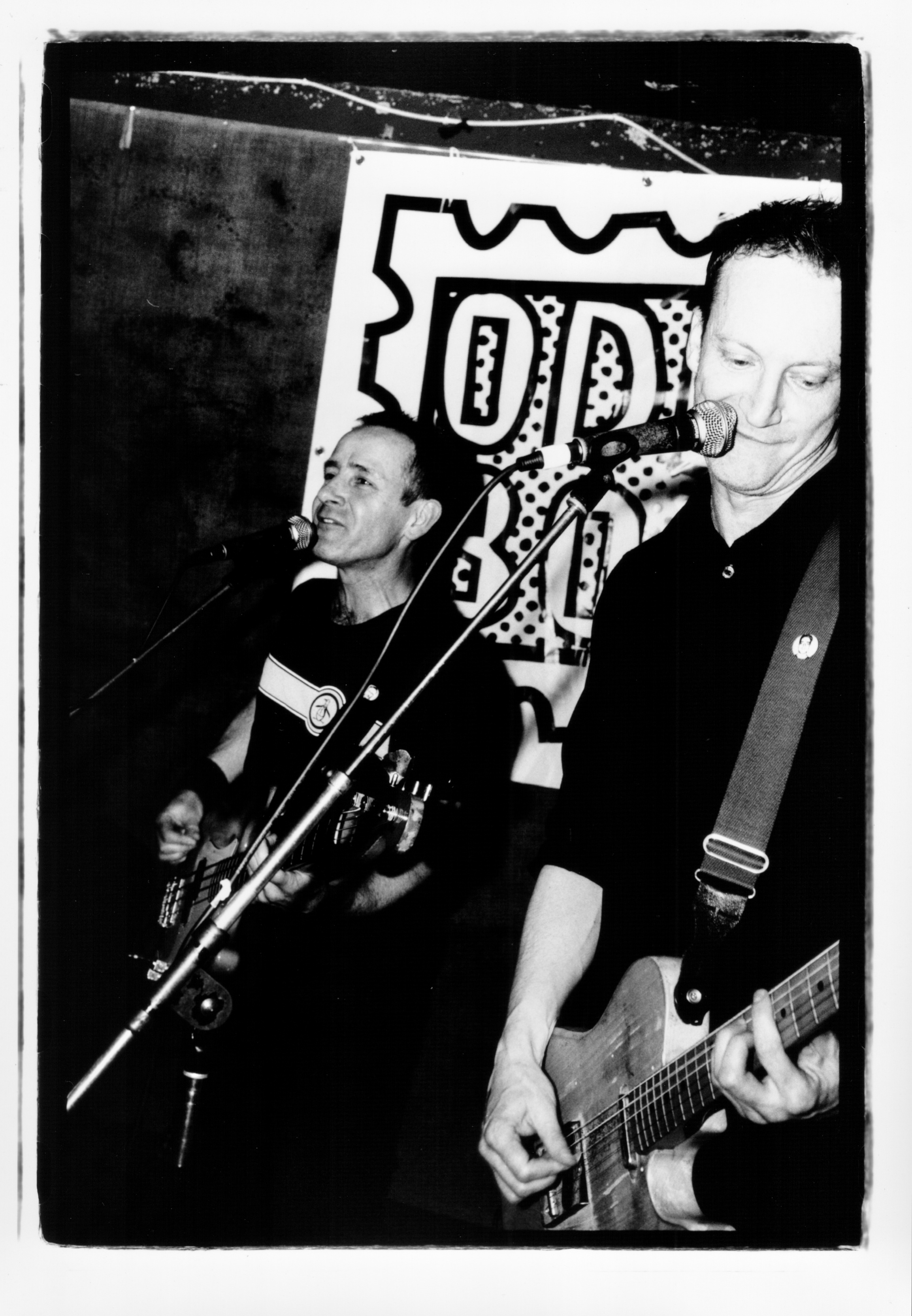 Sarandon at The Windmill